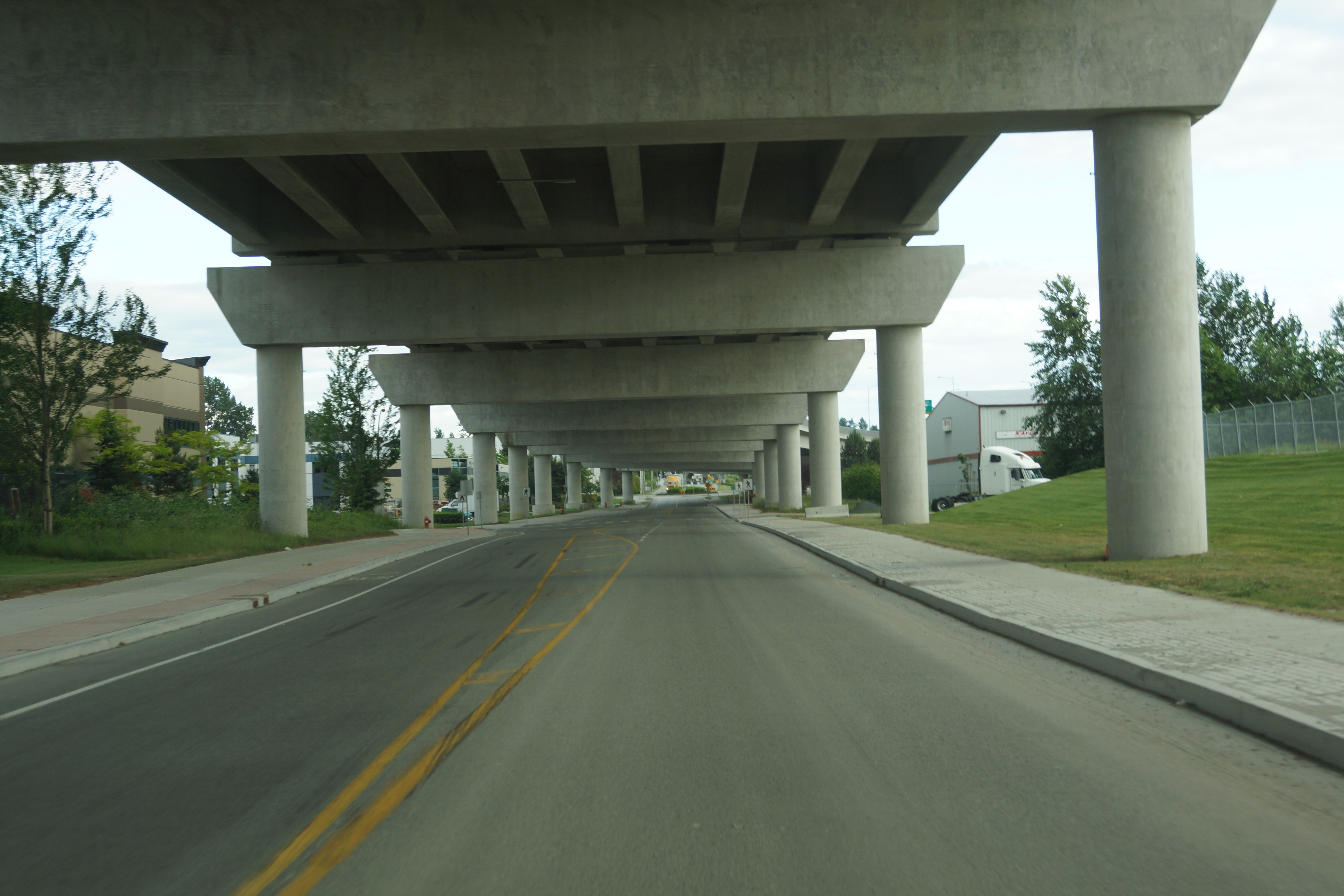 Underneath view of the Golden Ears Bridge Langley, British Columbia, Canada